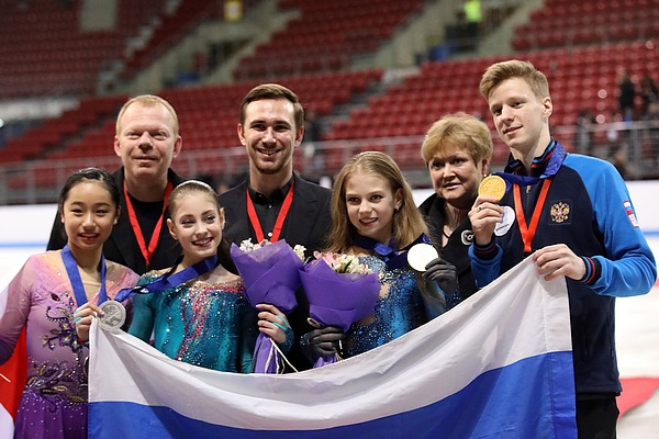 Photos – Junior World Championships 2018 – Ladies (Medalists)